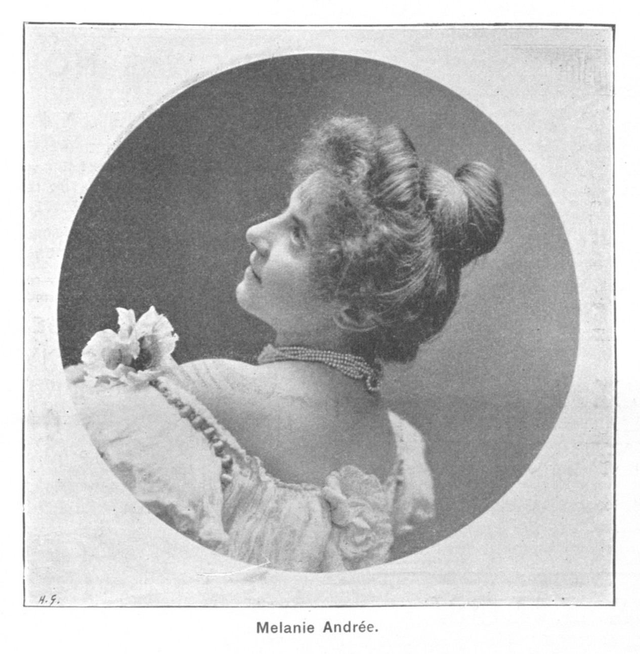 Portrait of Melanie Andrée (1869-??), Austrian and German opera singer.